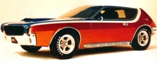 1968 American Motors (AMC) AMX GT show car - This left front photograph is of the "Second Type" - finished in red with white stripe and dark blue hood and roof; as well as 5-spoke wheels. The first time this concept car was shown at the auto shows, it sported flush wheel covers and was solid red with a white stripe). Scan of AMC Public Relations Department photo. The image was freely provided to promote this item with the intention that it be distributed for "free" by the media to the public.